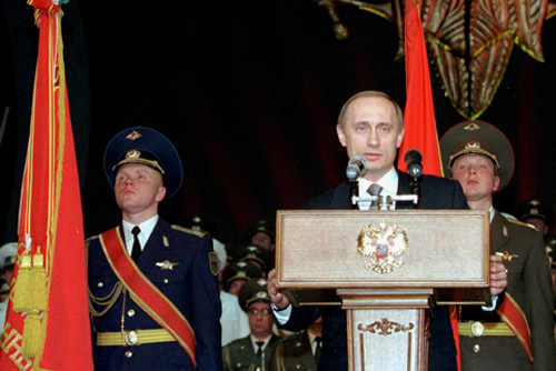 CENTRAL ACADEMIC THEATER OF THE RUSSIAN ARMY, MOSCOW. Speech at an official function to mark Defender of the Fatherland Day.